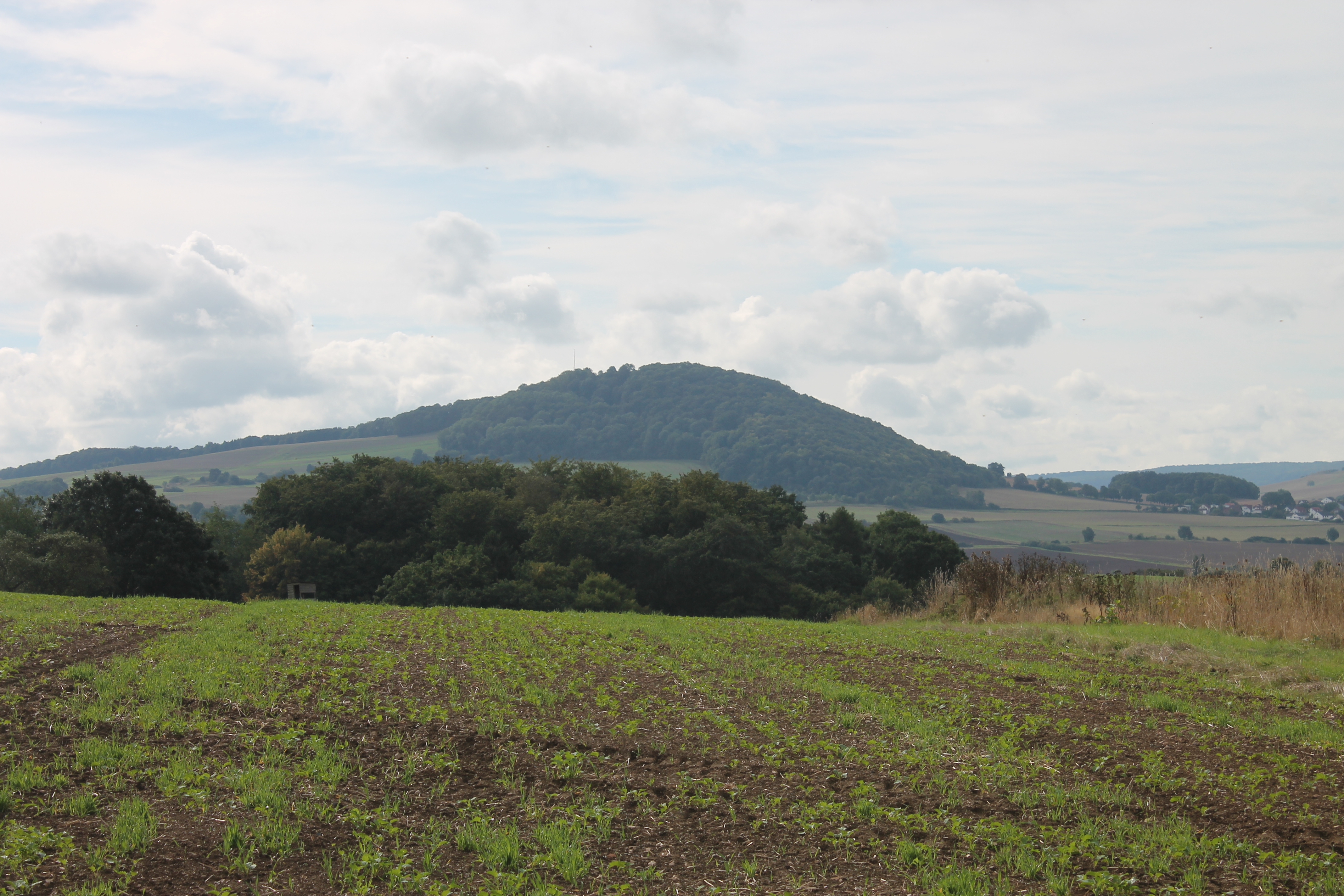 View of Heilgenberg from Altenbrunslar